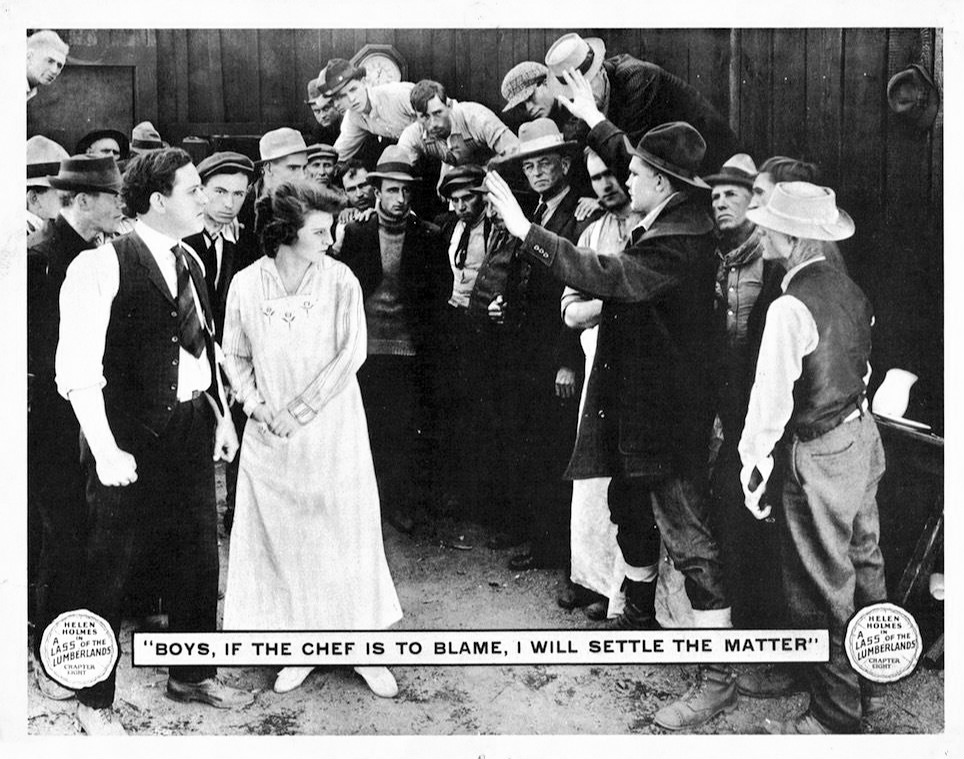 Lobby card for the American serial film A Lass of the Lumberlands (1916).